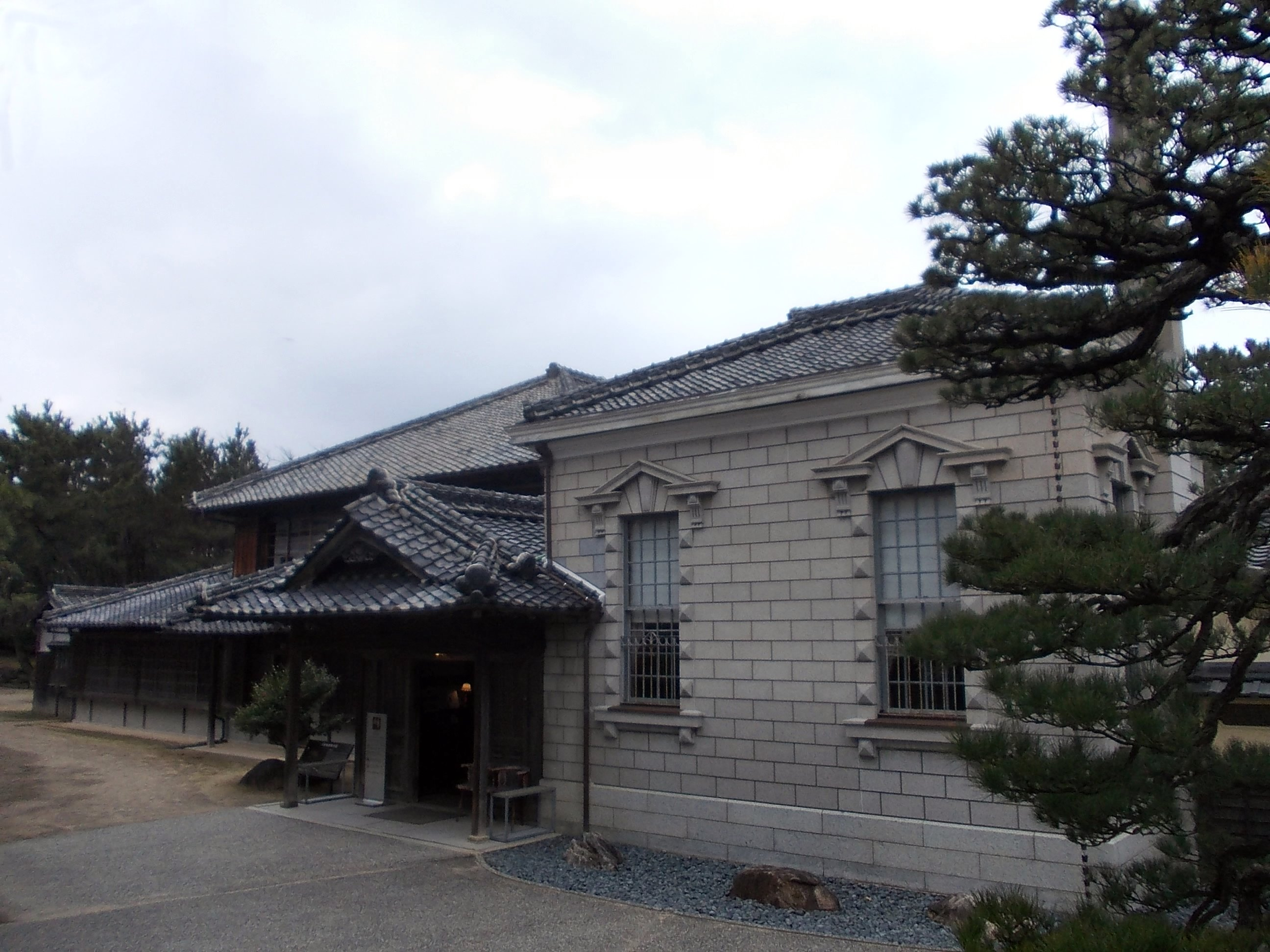 The Former Takatori Residence, Karatsu, Saga, Japan